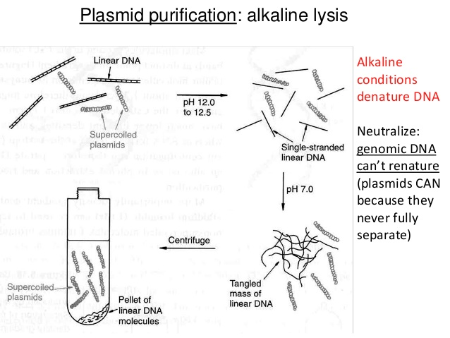 Alkaline lysis